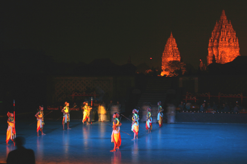 Ramayana Ballet Peformance at the Prambanan oper air stage.